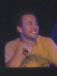 Howie D of the Backstreet Boyx